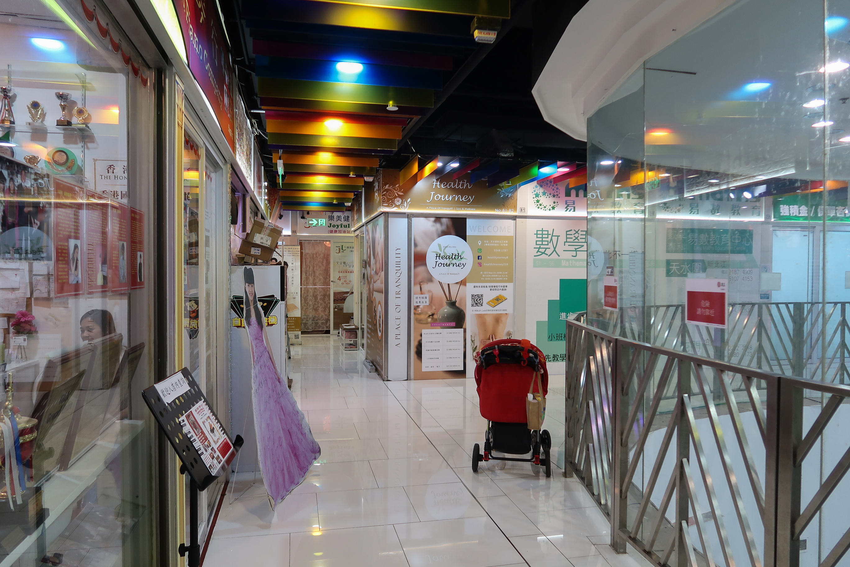 Kingswood Richly Plaza Phase 1 Level 2